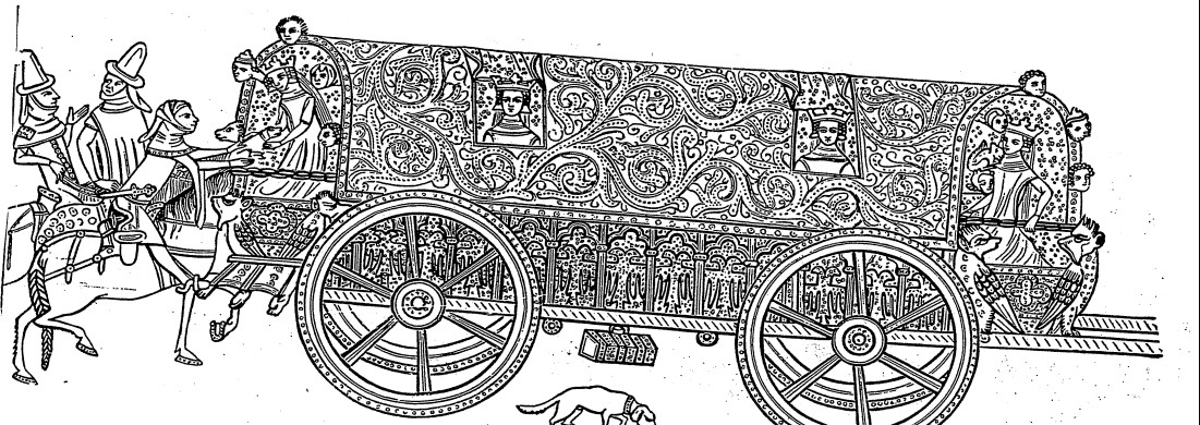 Fourteenth-Century English Carrage